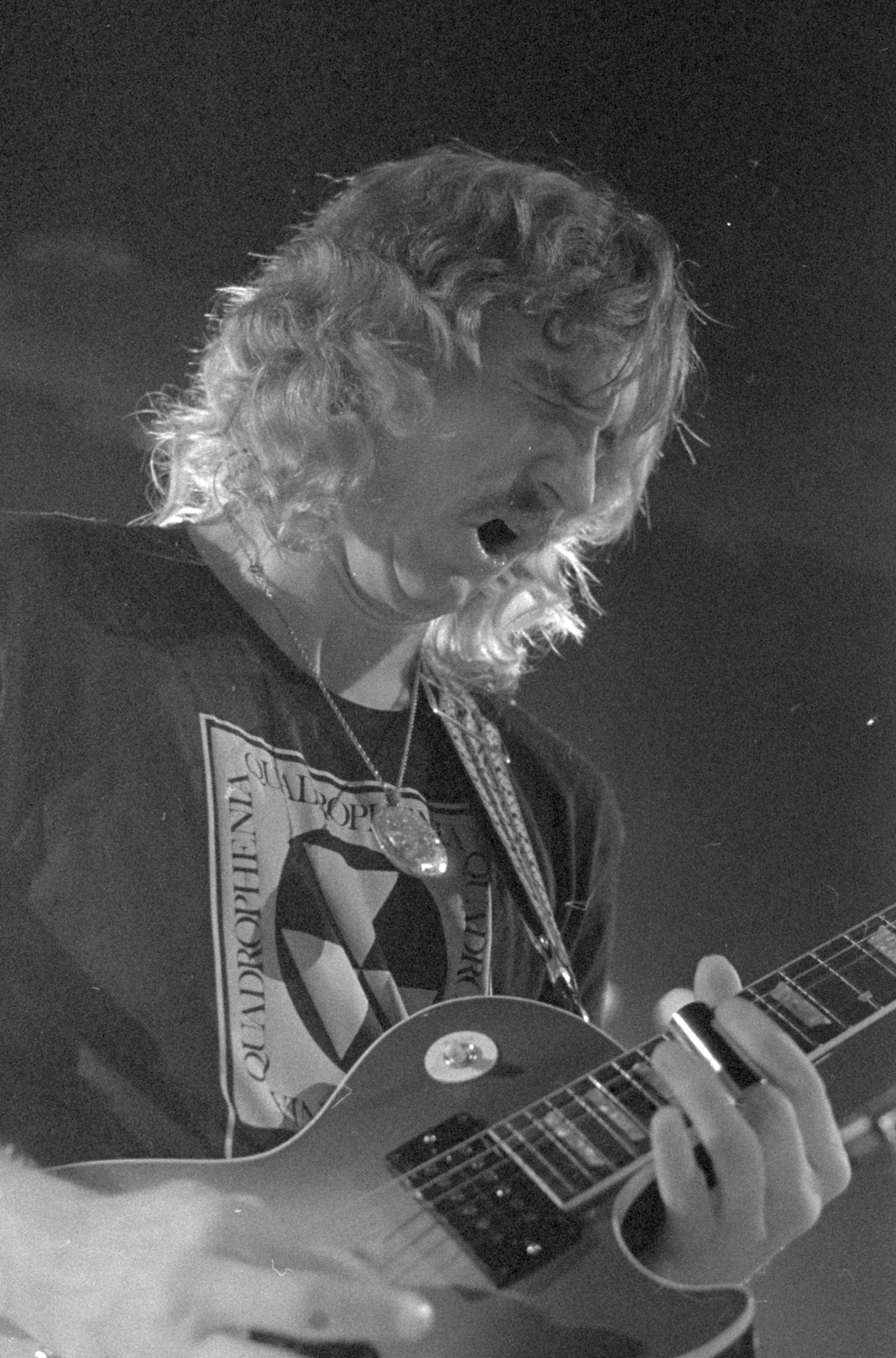 Joe Walsh playing slide guitar in a rock and roll performance.